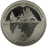 The obverse of commemorative coin of Ukraine "650 years of the first written mention of the Vinnitsa" (2013)